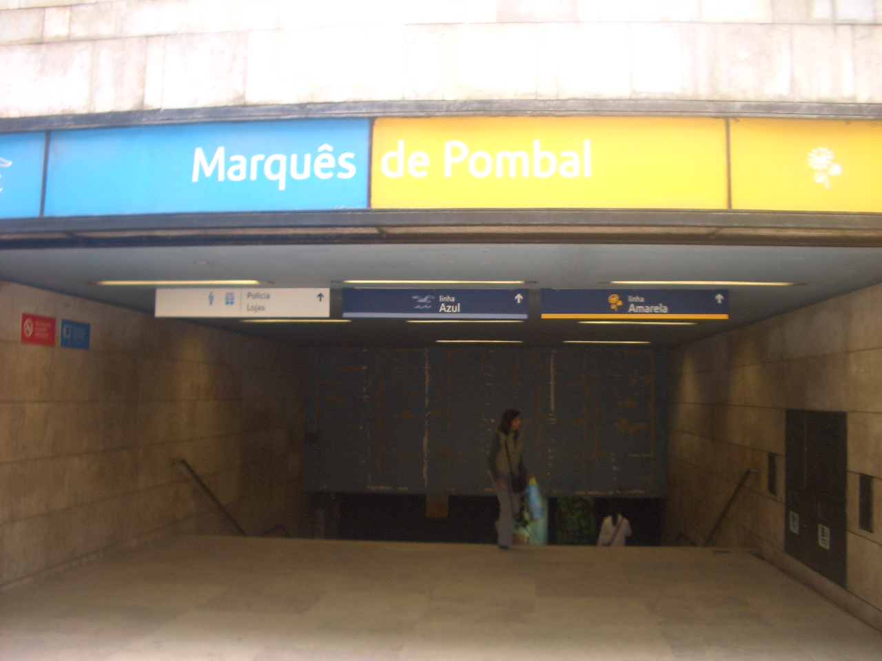 station Marquês de Pombal of the Lisbon metro